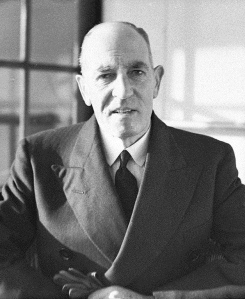 David Murray Anderson upon his arrival in Sydney as Governor of New South Wales